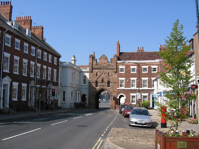 Beverley Bar, Beverley, East Riding of Yorkshire, England.This view of the gate from TA0303939851.